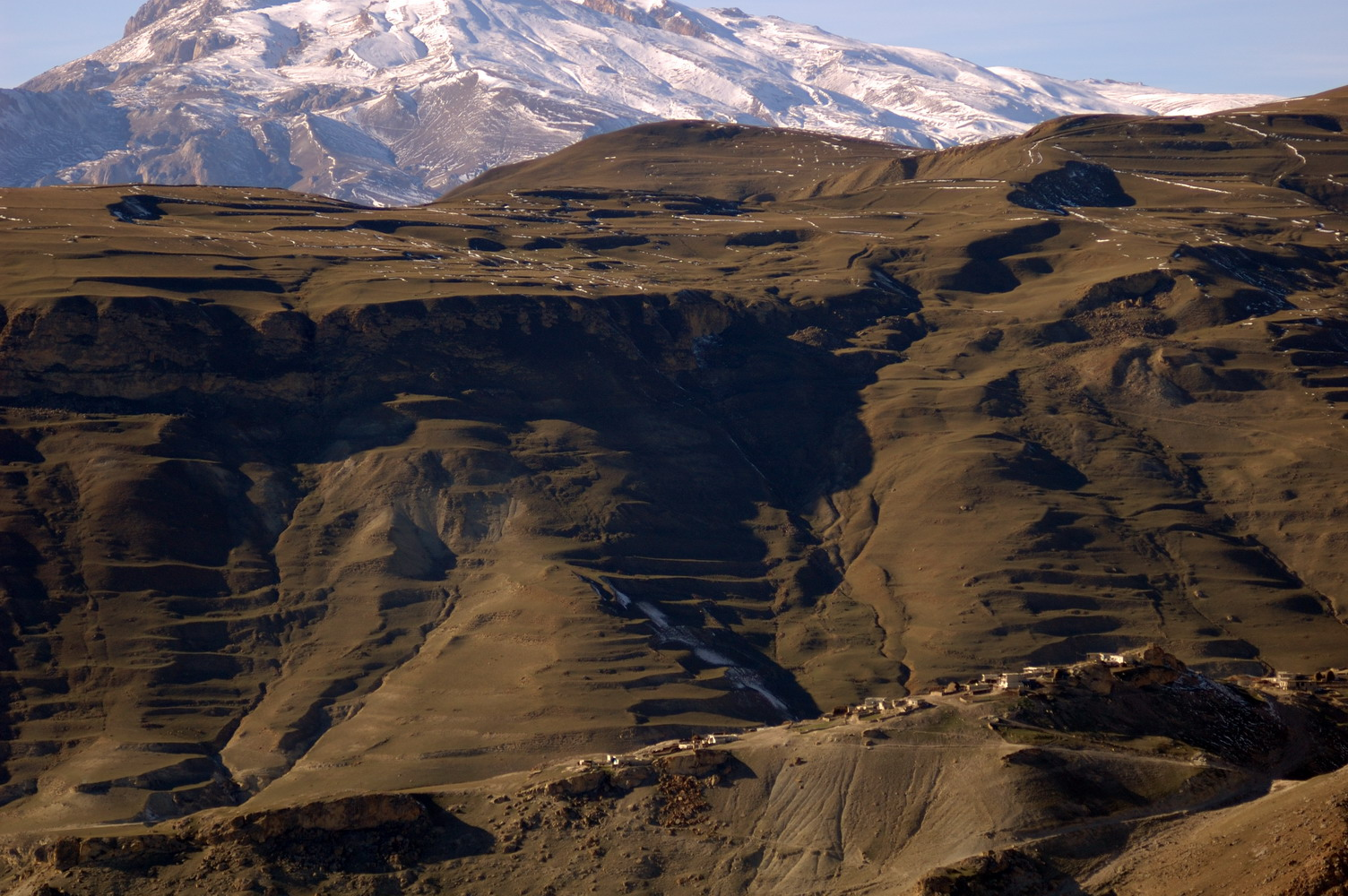 The village Buduq in Azerbaijan (region Quba)